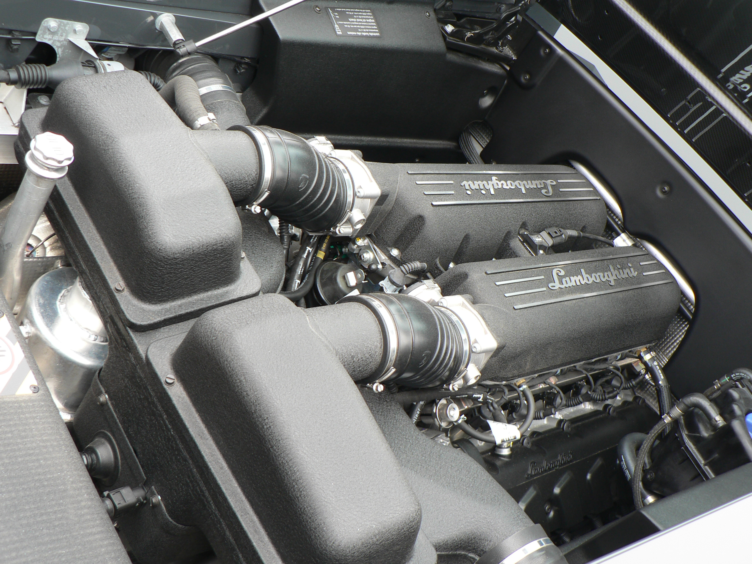 The Lamborghini V10 engine in a Lamborghini Gallardo Superleggera